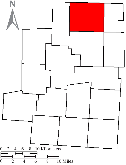 Originally created by the US Census. Modified by myself to highlight the township.